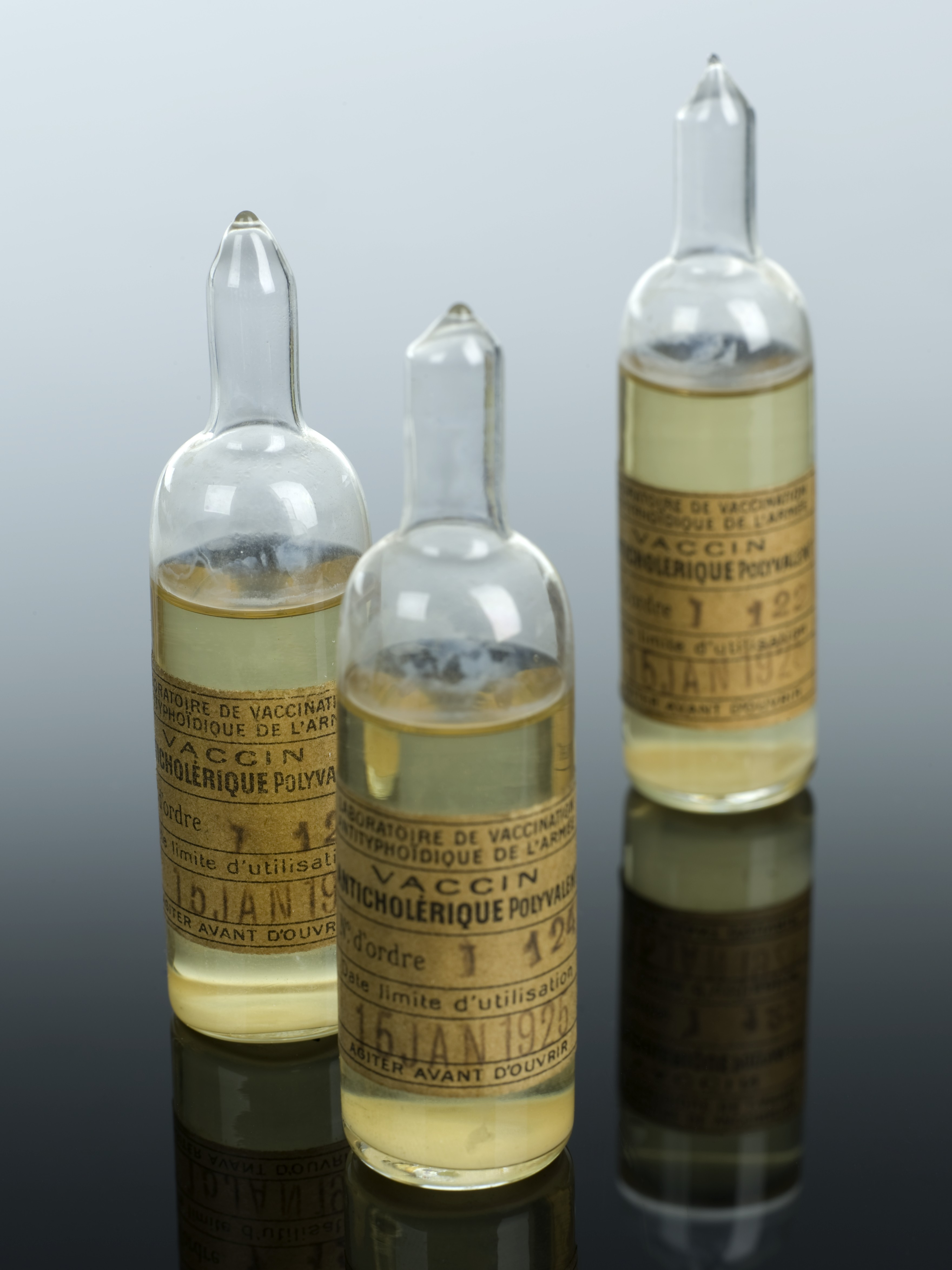 The vaccine was used to protect people against cholera. Cholera is a water-borne disease affecting the small intestine, causing diarrhoea and vomiting. The name of the Laboratoire de Vaccination Antityphoïdique de l’Armée, which made this vaccine, translates as the “Army Laboratory for Anti-Typhoid Vaccination”. Cholera, like typhoid, was a threat to soldiers who drank polluted water. Prevention of disease aimed to ensure that soldiers were at peak physical condition to fight. maker: Laboratoire de Vaccination Antityphoïdique de l’Armée Place made: Paris, Ville de Paris, Île-de-France, France Wellcome Images Keywords: ampoule; Vaccination; Vaccines; vaccine; Cholera